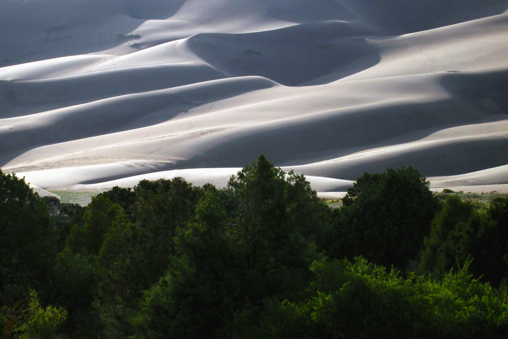 Great Sand Dunes National Park, Colorado, USA